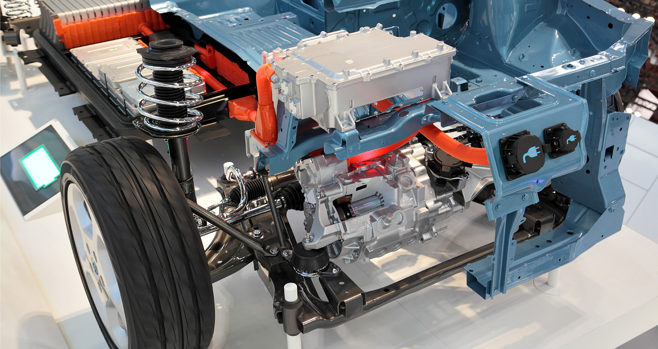 Nissan Leaf at the 2009 Tokyo Motor Show.